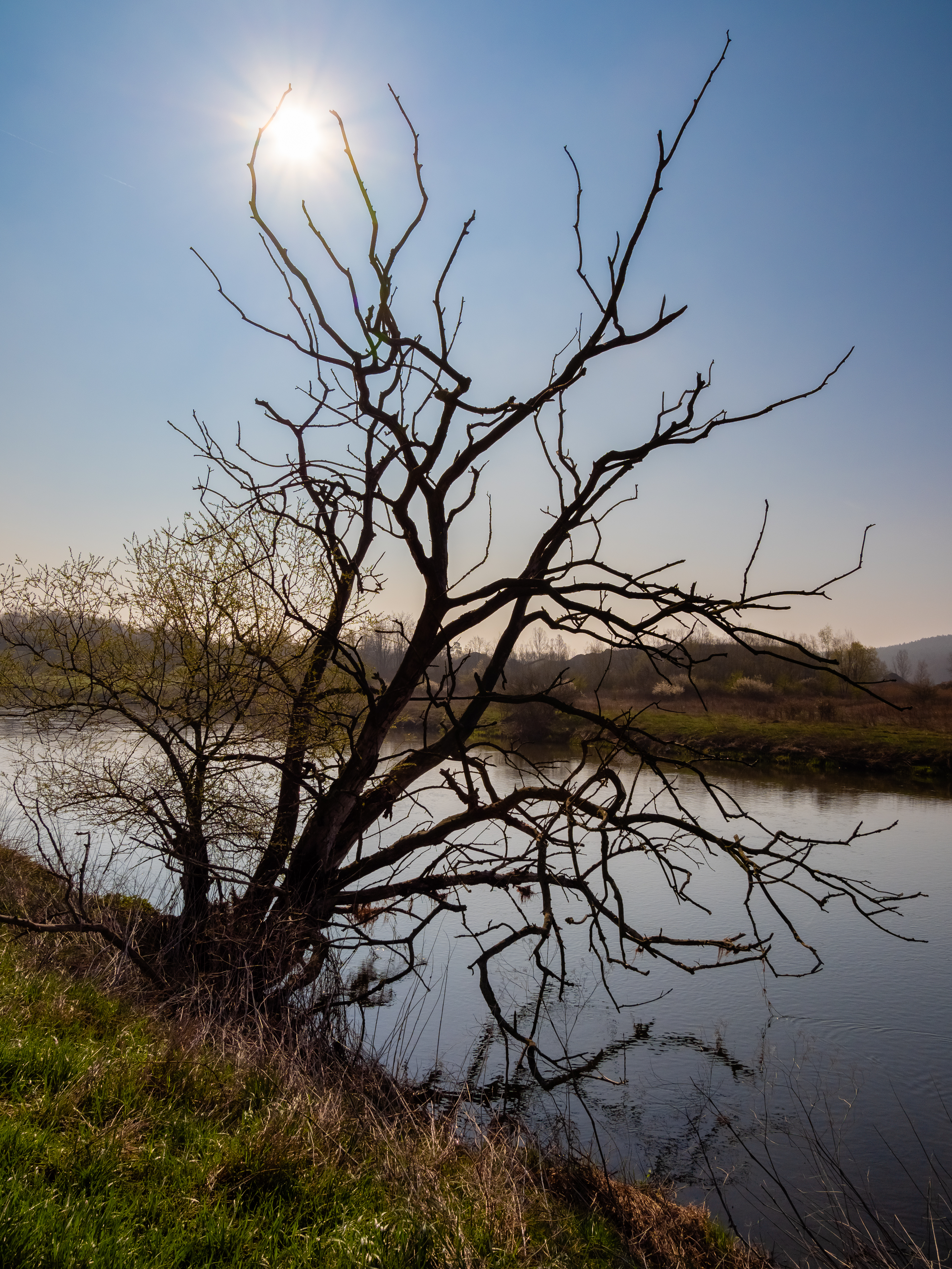 Dead tree at the Regnitz near Pettstadt